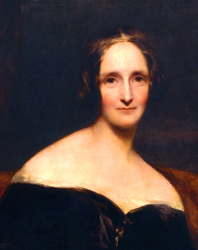 Portrait of Mary Shelley